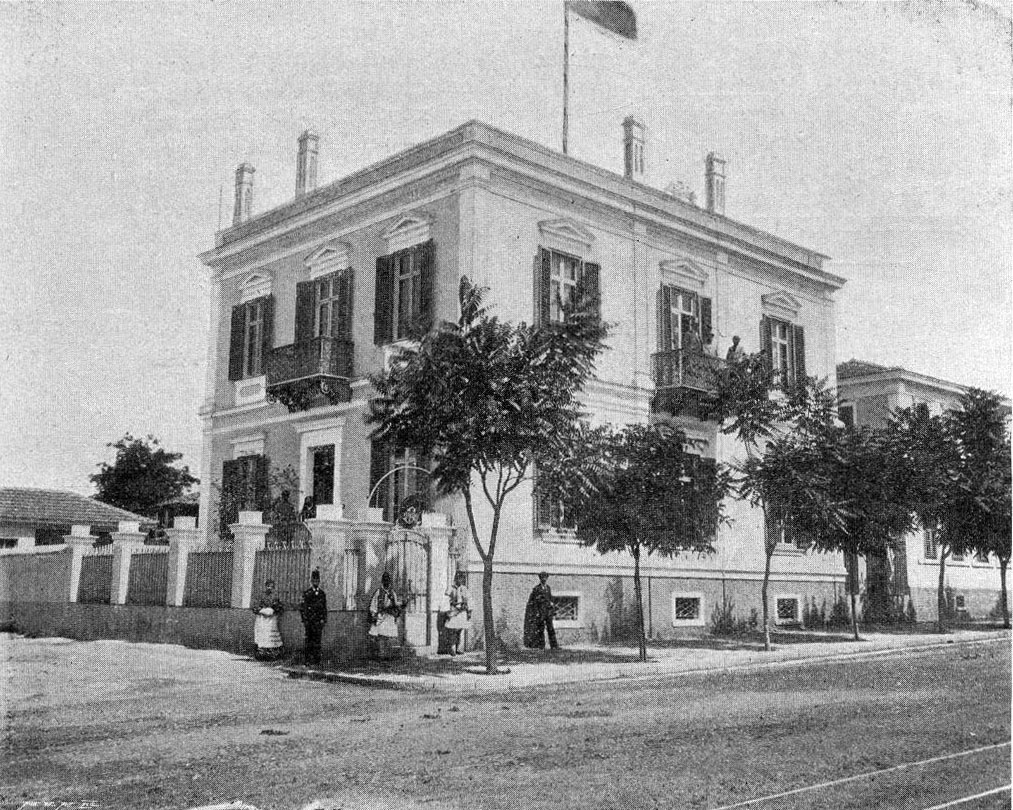 Nova iskra